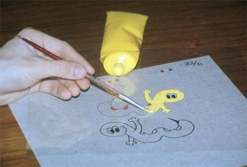 Inking and painting an animation cel